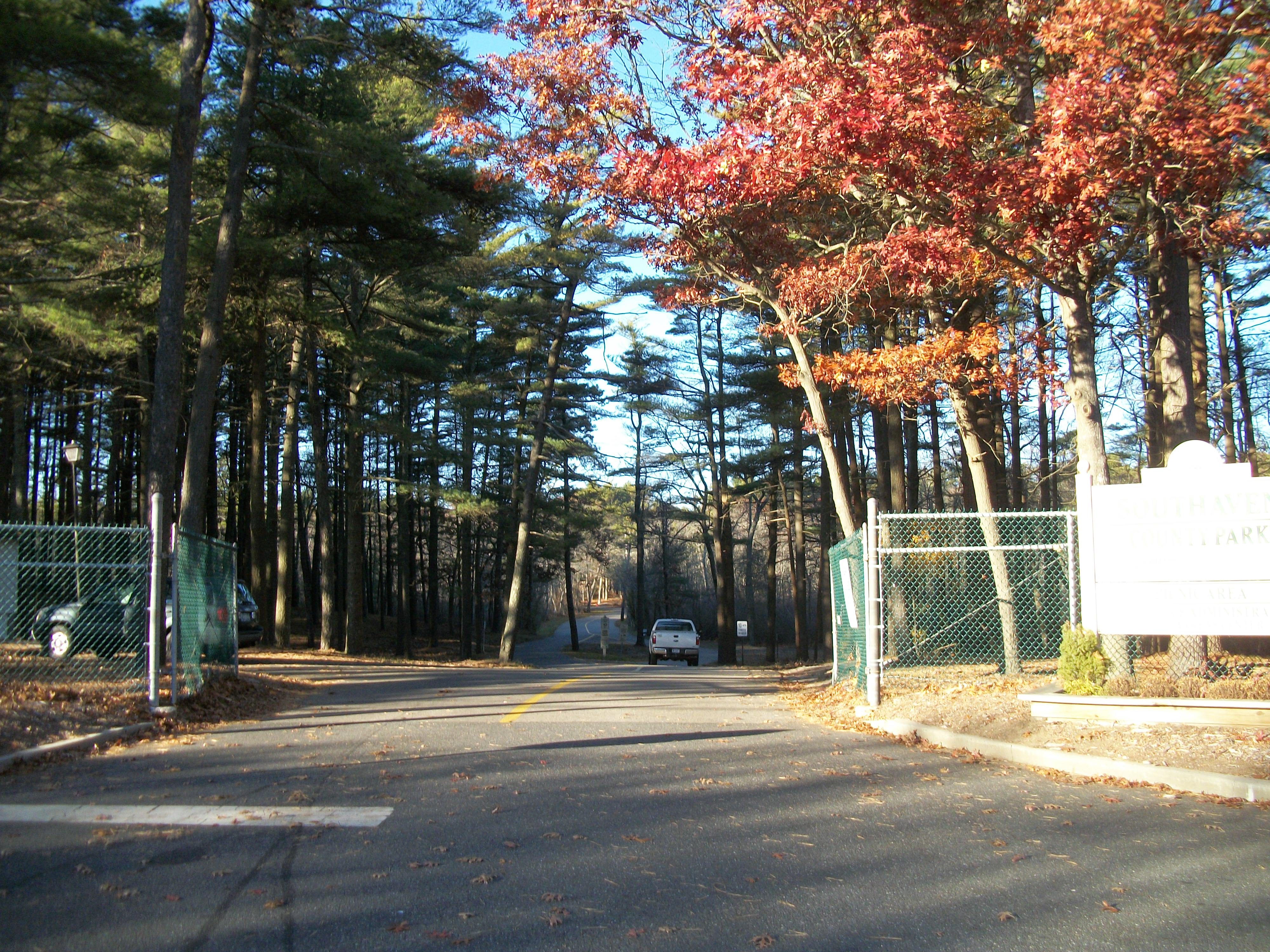 The entrance to Southaven County Park on Victory Boulevard in South Haven, New York.